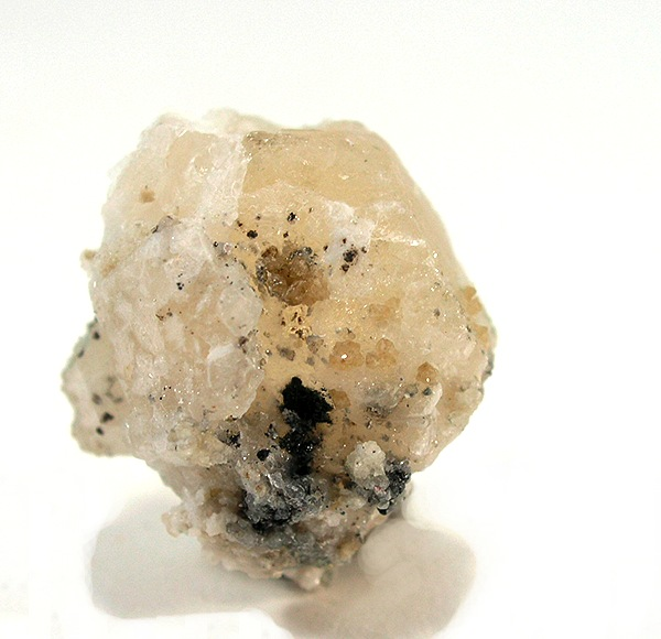 Cryolite Locality: Mt. St. Hilaire, Quebec, Canada Size: thumbnail, 2 x 1.7 x 1.5 cm Cryolite This admittedly ugly , lumpy-looking thing is actually a superb crystal of cryolite for the locality. Cryolite here crystallizes in a unique form, quite unlike those cubic crysatls from Greenland of the 1800s and early 1900s. They have been found just rarely at MSH, and to my knowledge this particular sort dates to only one pocket found about 20 years ago. I have only seen 2 others for sale over the years. Seldom do they occur so large as here, and often they are altered to other minerals. This is unalatered, gemmy, and large for the style. This one is complete all around, better in person 2 x 1.7 x 1.5 cm